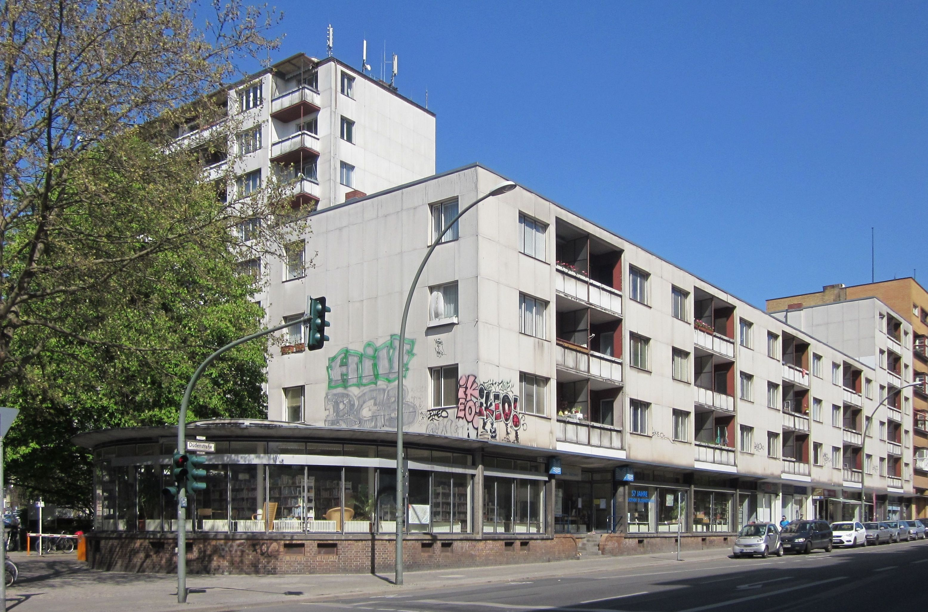 Residential complex Dudenstraße No. 12-20 and Methfesselstraße 45/49 in Berlin-Kreuzberg. The complex consists of the part on Dudenstraße, which also houses the Friedrich von Raumer Library (on the left), and a high-rise apartment building on Methfesselstraße (in the background). The complex was built from 1954 to 1955 to designs by Max Taut, who, in the 1920s, had also built the neighboring Building of the Trade Union of German Bookprinters (Verbandshaus der Deutschen Buchdrucker). The residential complex has been designated as a cultural heritage monument.